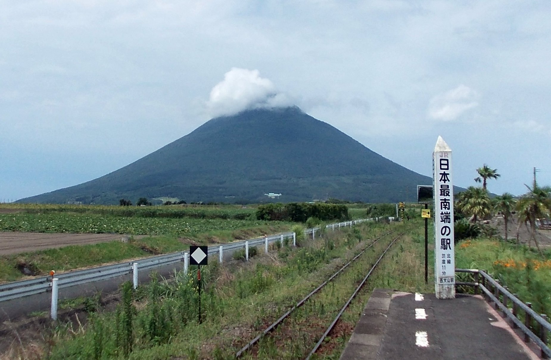 Mount Kaimon from Nishi-Oyama Station